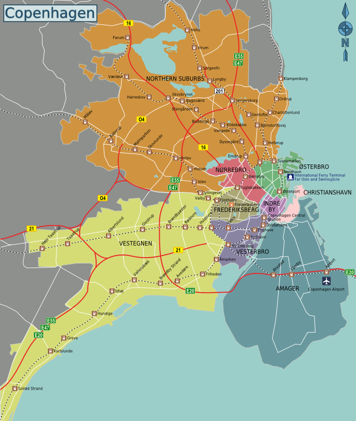 Unofficial district map of Copenhagen with S-train lines. Official districts pr. 2013 can be seen on File:Districts of Copenhagen urban area.jpg